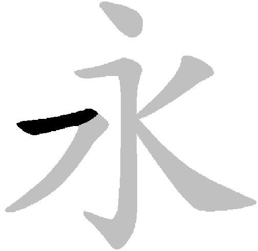 eight principles of the character Yong 永 (永字八法 Yǒngzì Bāfǎ) of the Chinese calligraphy